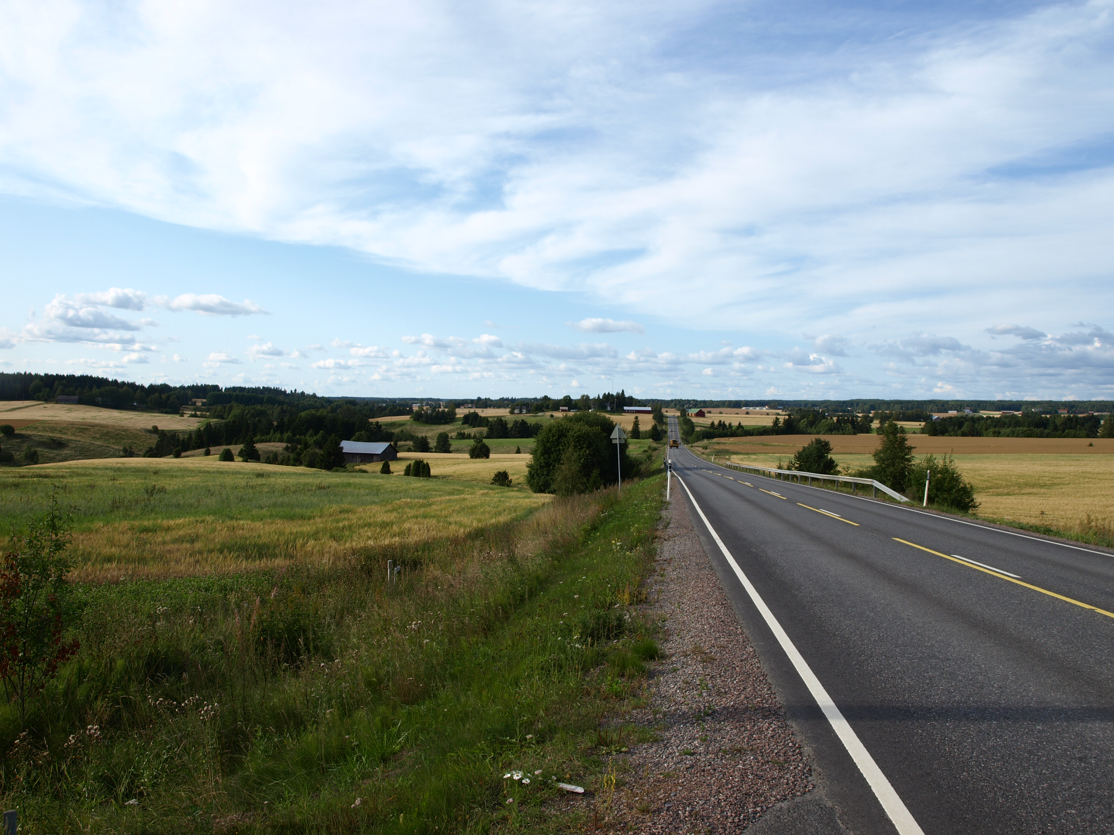 A view to Vaskio from Märynummi in Salo, Finland.